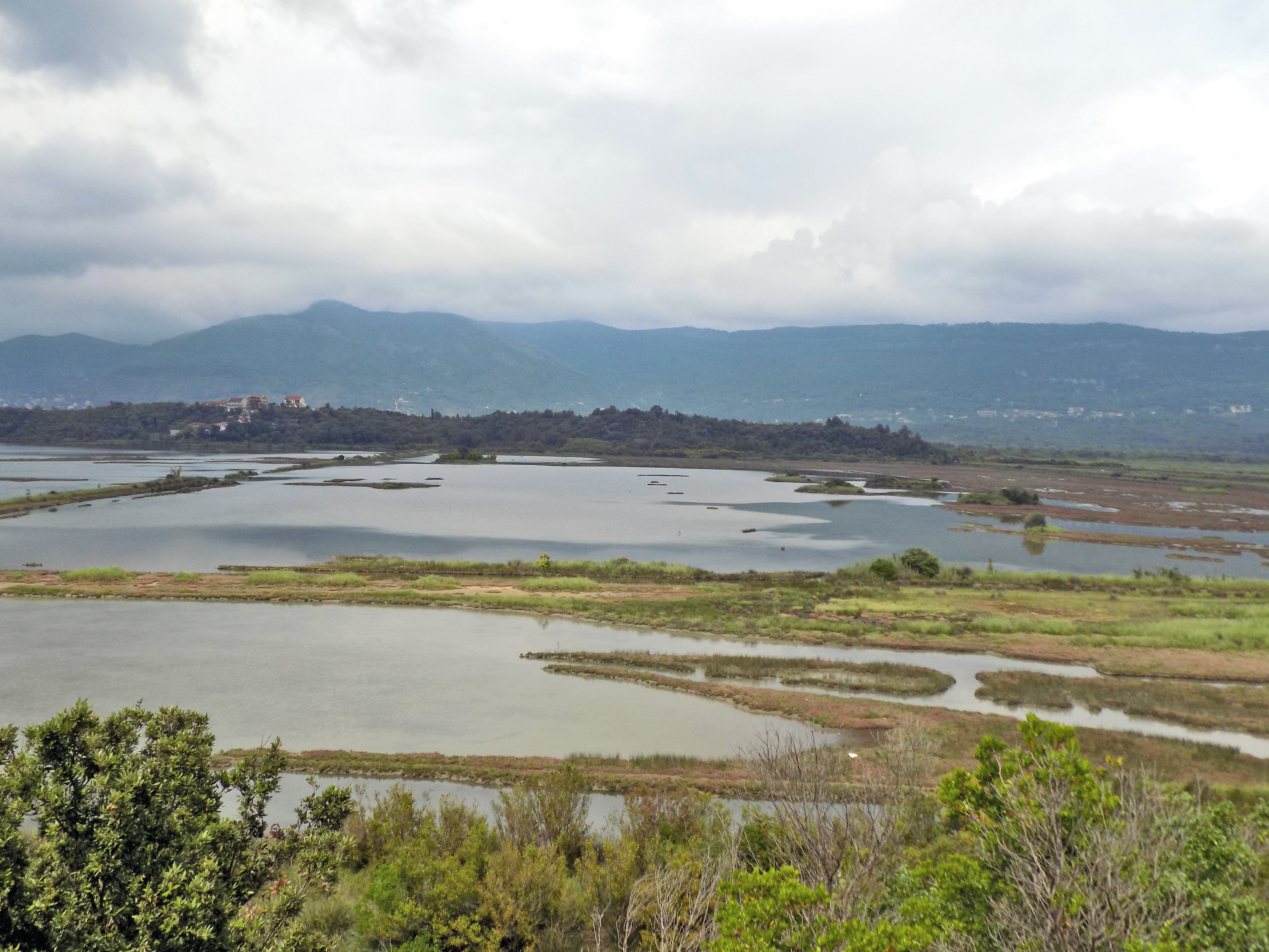 Special Nature Reserve "Solila", Tivat Municipality, Montenegro - panorama